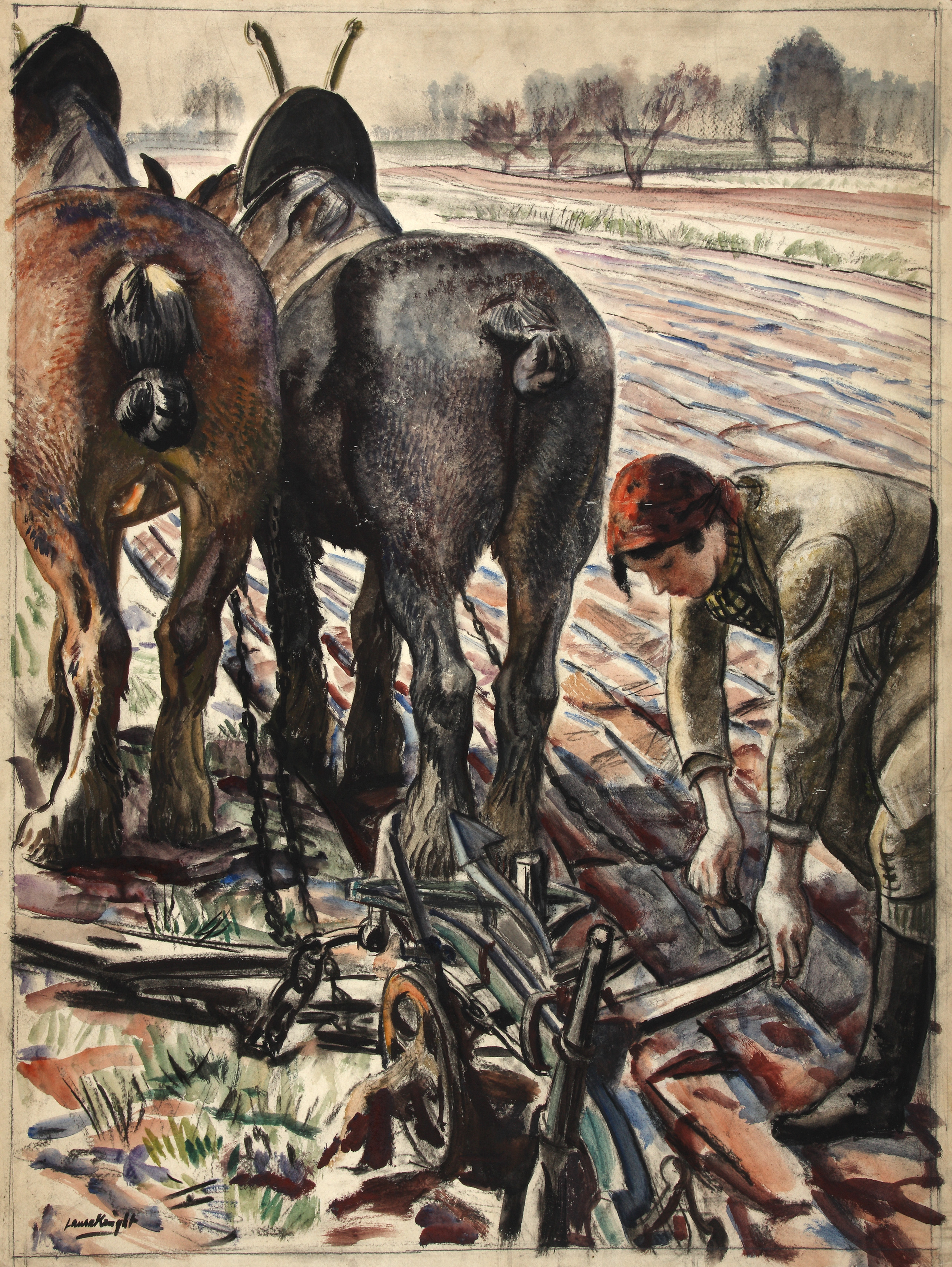 Horse-drawn plough, land girl